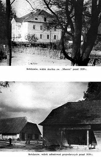 Bohdanow 1939